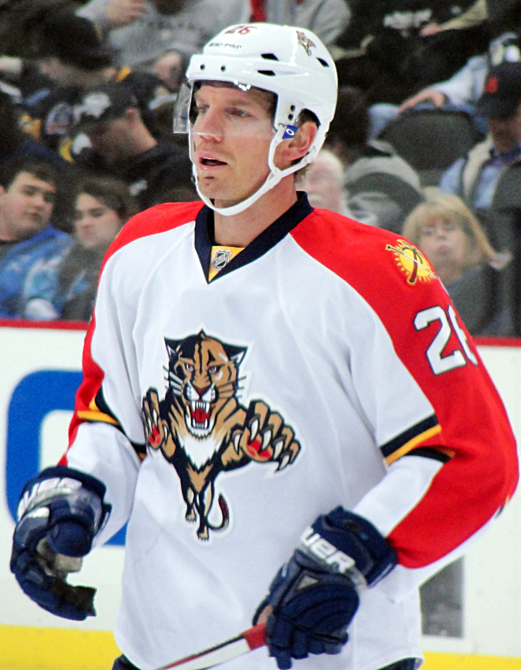 Florida Panthers forward Mikael Samuelsson skates against the Pittsburgh Penguins, March 9, 2012 at Consol Energy Center in Pittsburgh, PA.